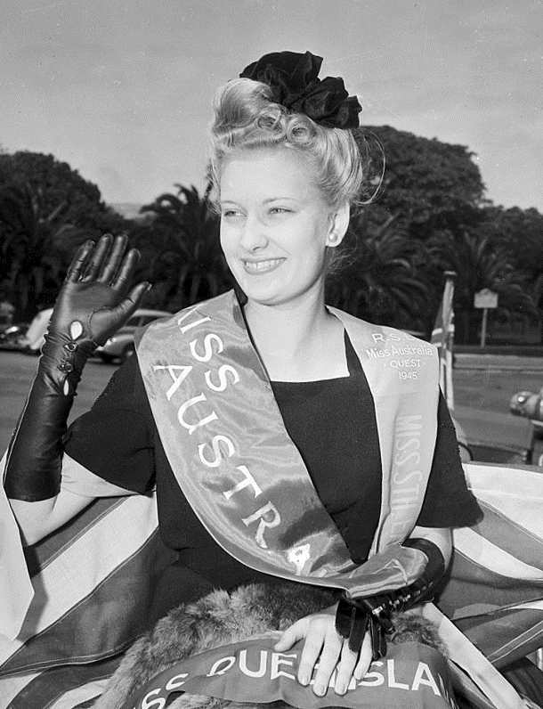 Miss Australia is crowned in Sydney, December 18, 1945.